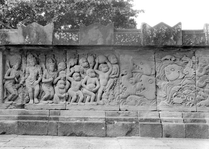 Relief at the temple dedicated to Shiva at the Candi Lara Jonggrang or Prambanan temple complex